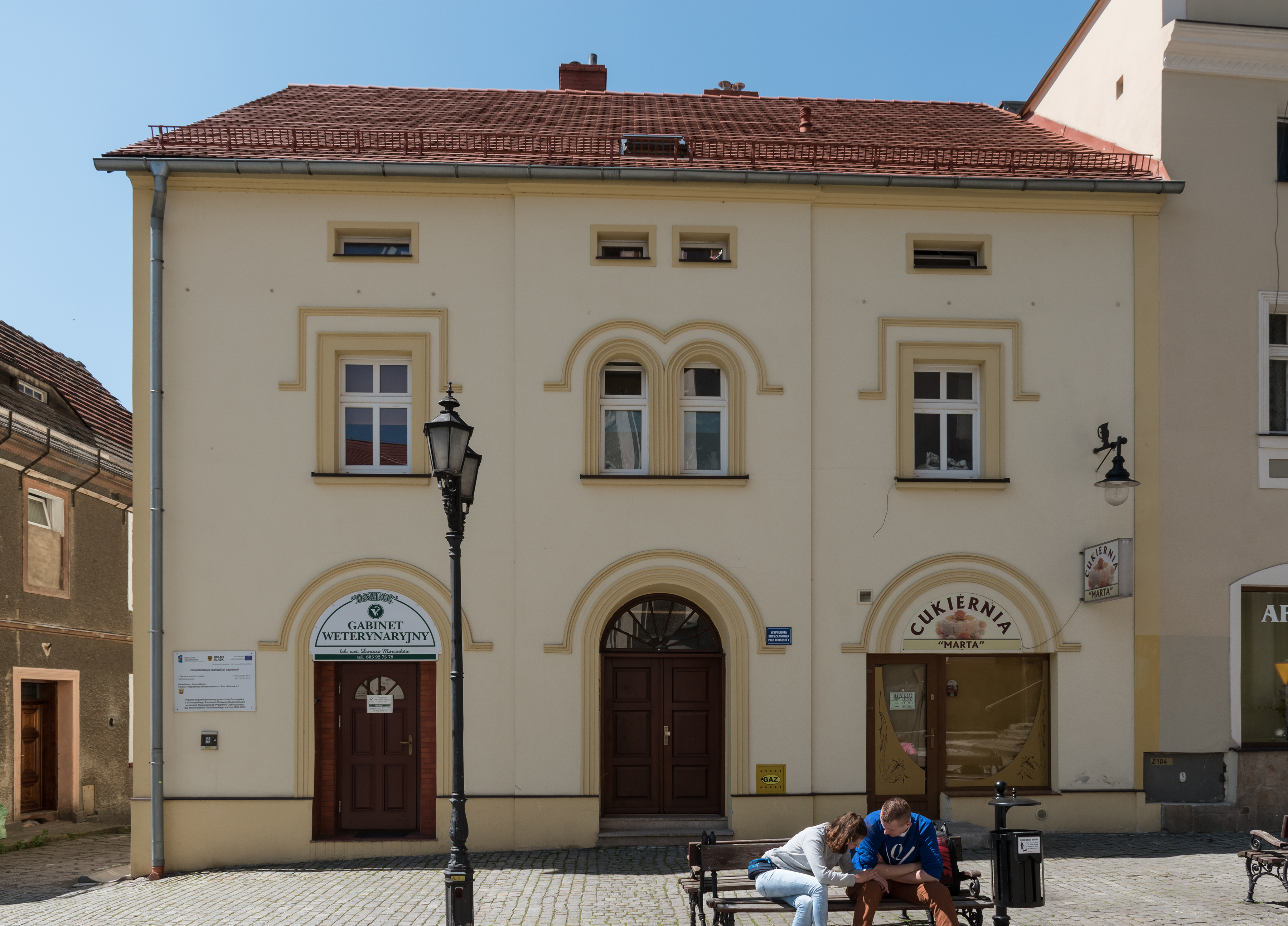 1 Wolności Square in Bardo